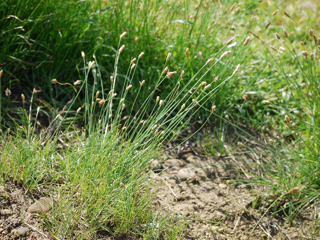 Fimbristylis subbispicata(Cyperacae)